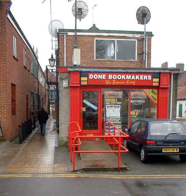 Done Bookmakers - The Bonus King. Betting Shop (with disabled access) in the Old Courts area of Brigg, North Lincolnshire.